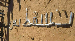 شعار الثوره السودانيه بعلب الغاز المسيل للدموع